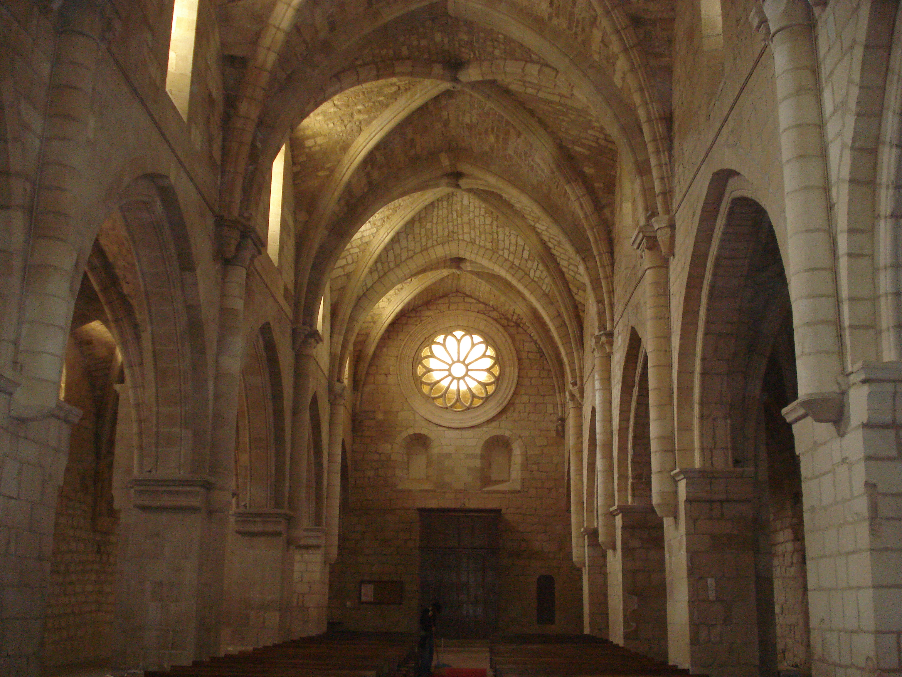 Church of the Monastery of Iranzu's nave